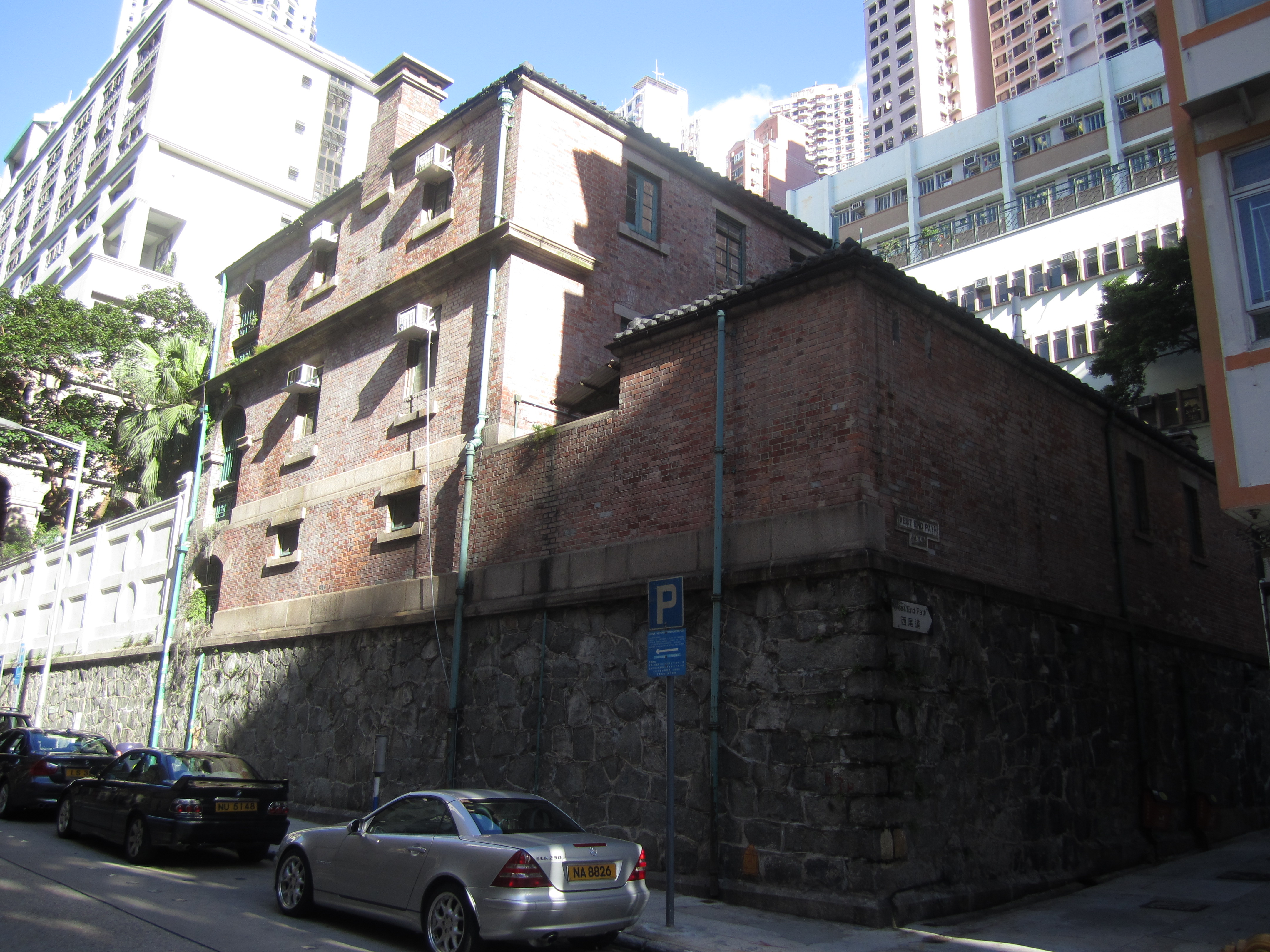 HK Old Lunatic Asylum